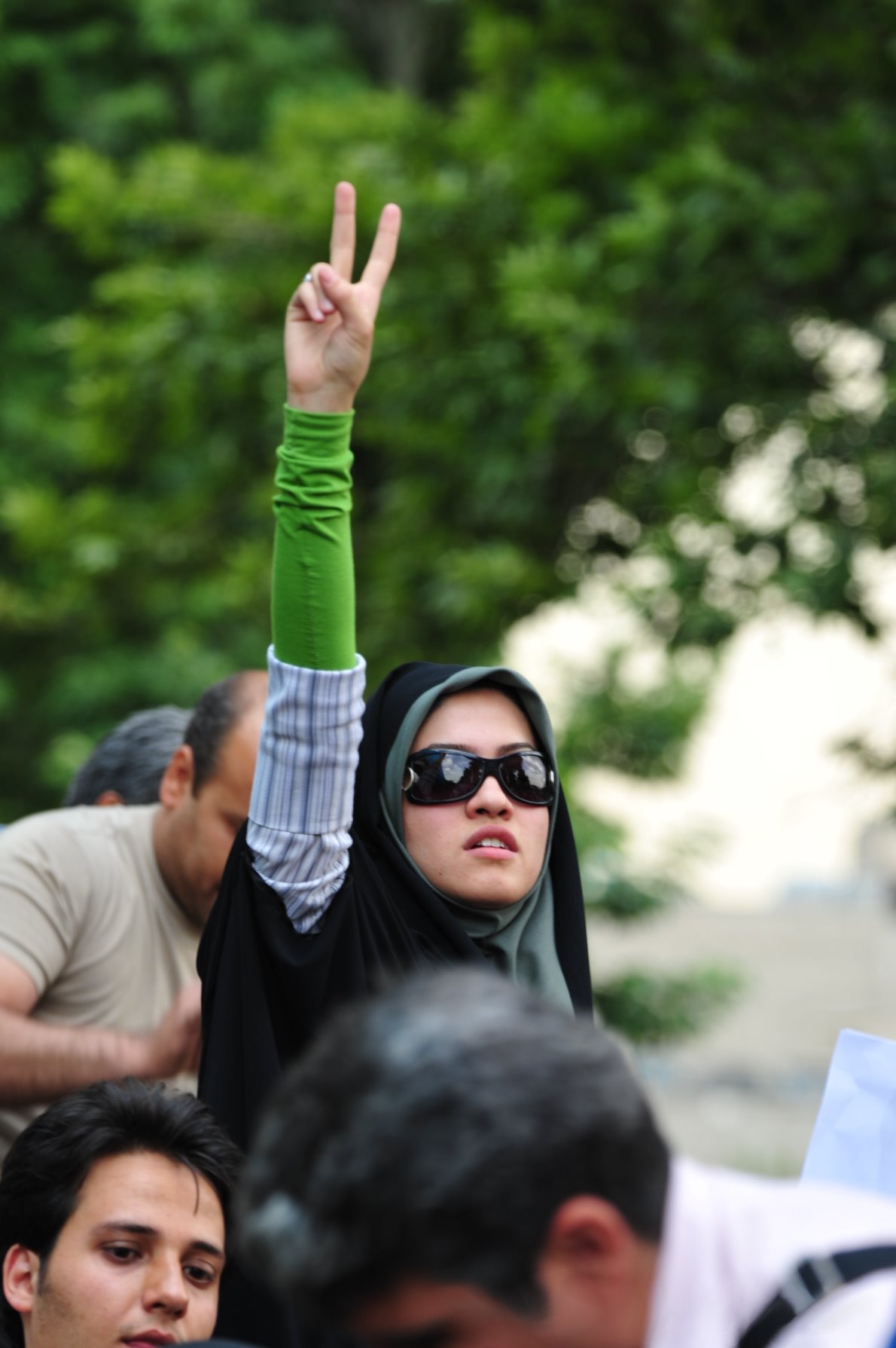 Mousavi supporters in protest, Tehran. More photos here: Viva Iran!